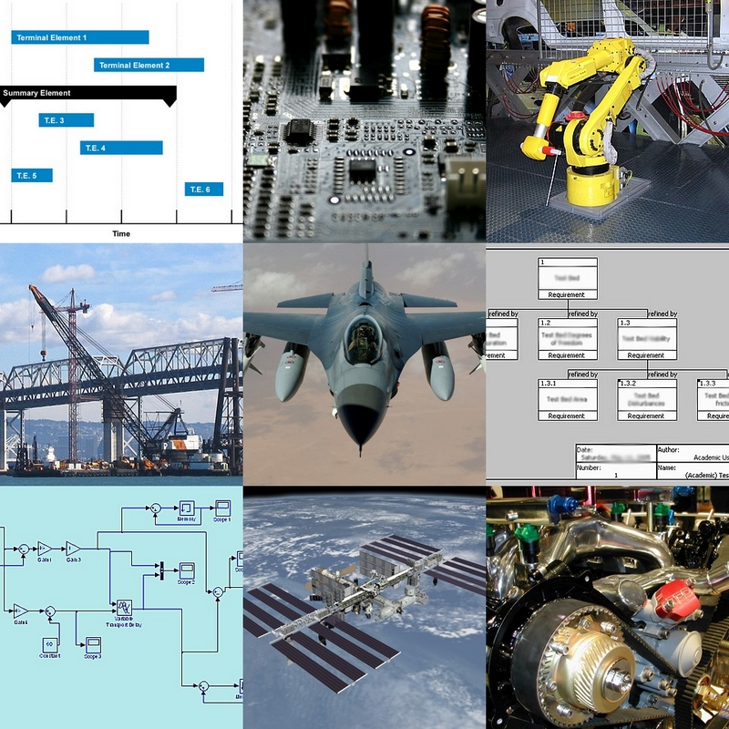 A collage of Systems Engineering applications/projects.